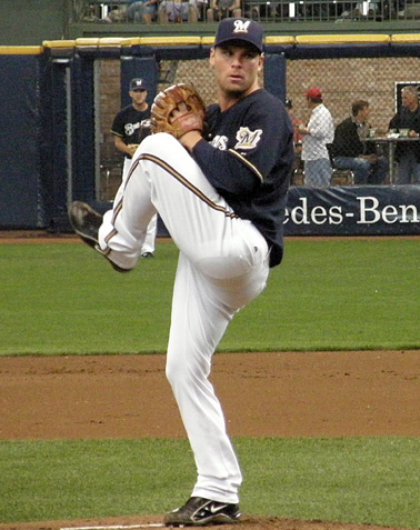 Ben Sheets